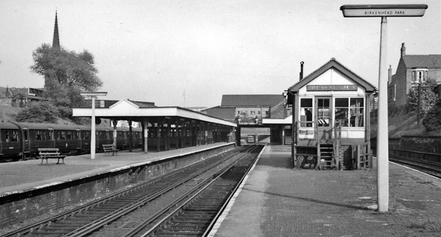 Birkenhead Park Station. View eastward, towards Hamilton Square and Liverpool; Wirral Railway, Liverpool (Central, Low Level) - Birkenhead (hamilton Square) - West Kirby, Wallasey and New Brighton.